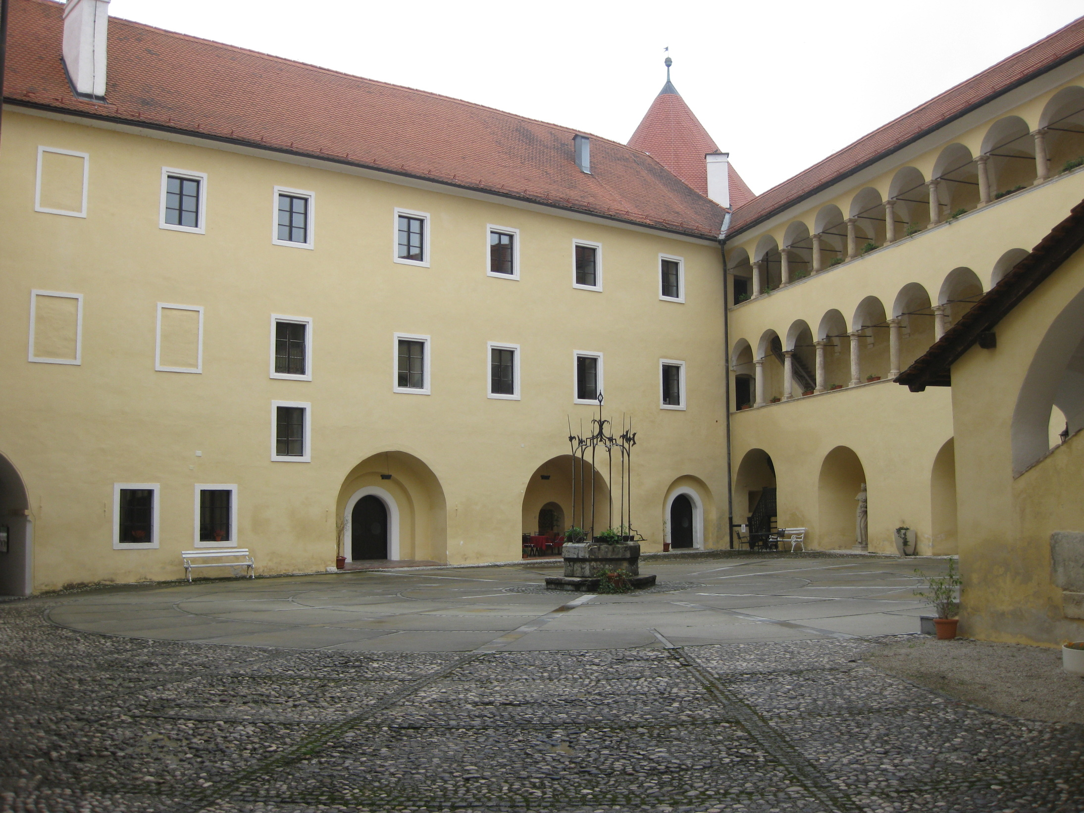 Inside Mokrice Castle in Slovenia